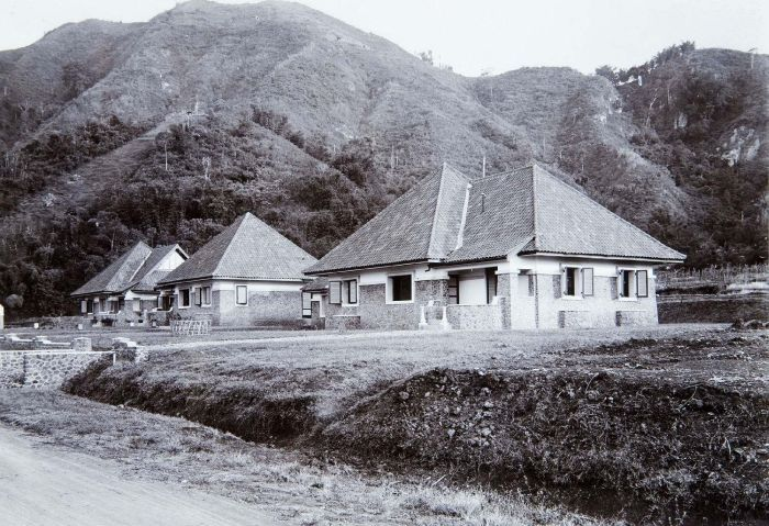 Houses of the employees of radio station Tjililin